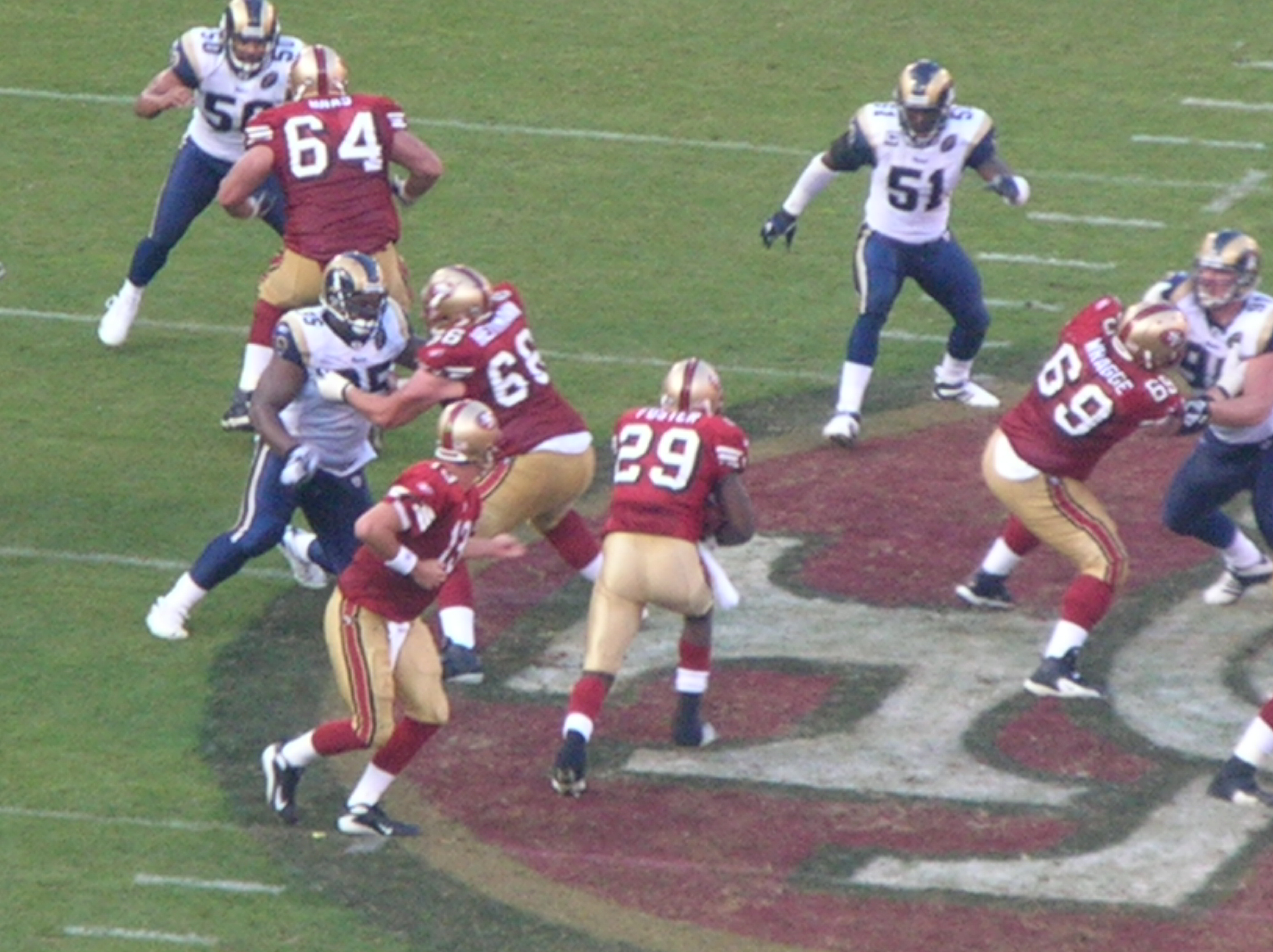 San Francisco 49ers running back Deshaun Foster carries the ball during a regular season game against the St. Louis Rams. The 49ers won 35-16.